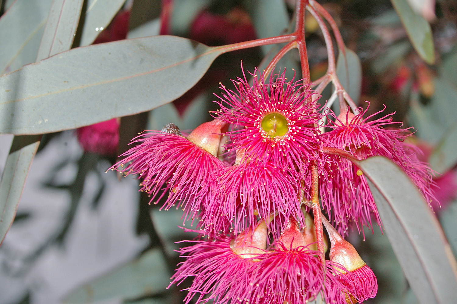 Eucalyptus sideroxylon. Photograph taken in Turvey Park, New South Wales